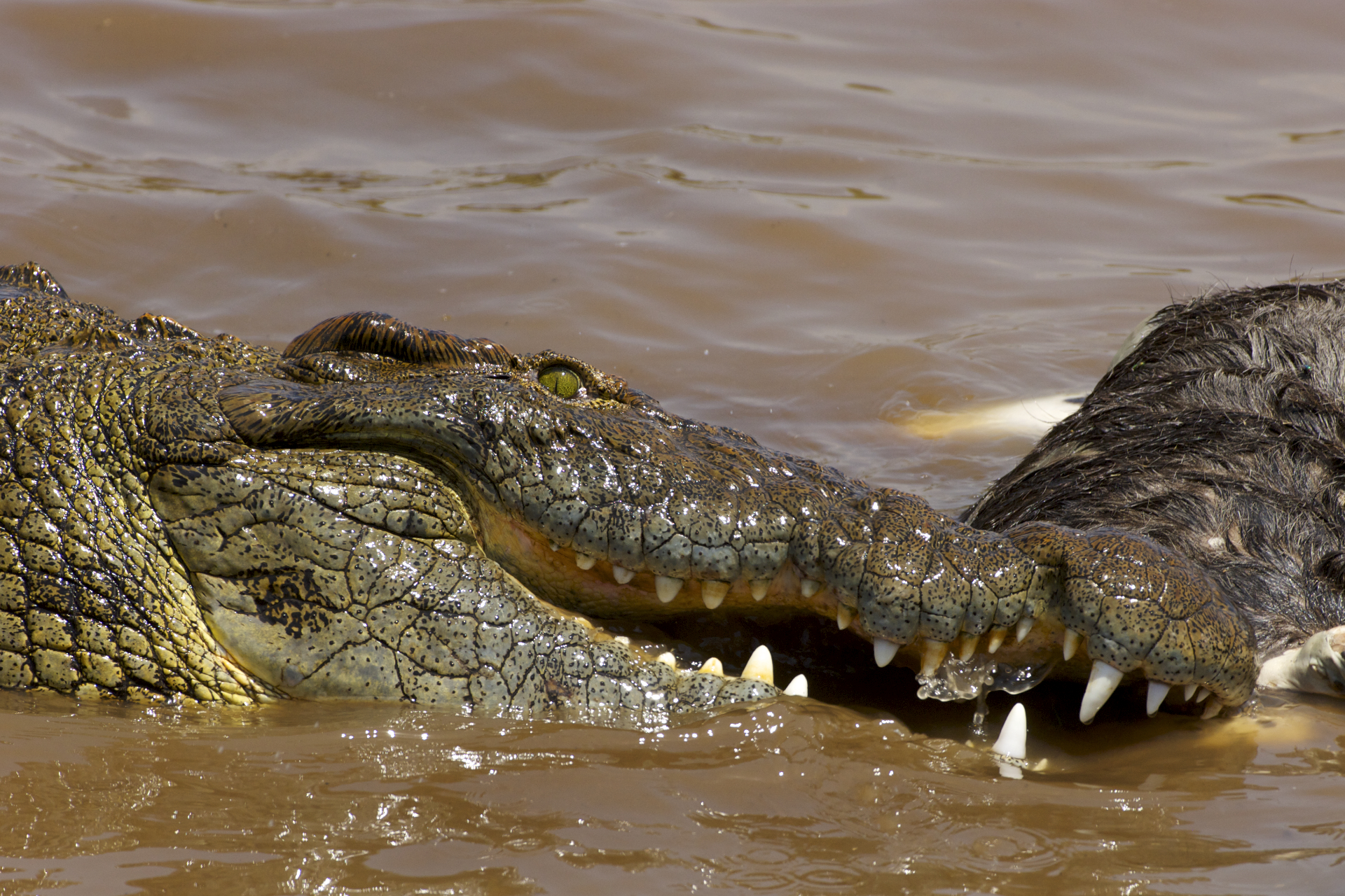 Nile Crocodile feeding on a dead Wildebeest, in the Masai Mara, showing its terrifying set of teeth